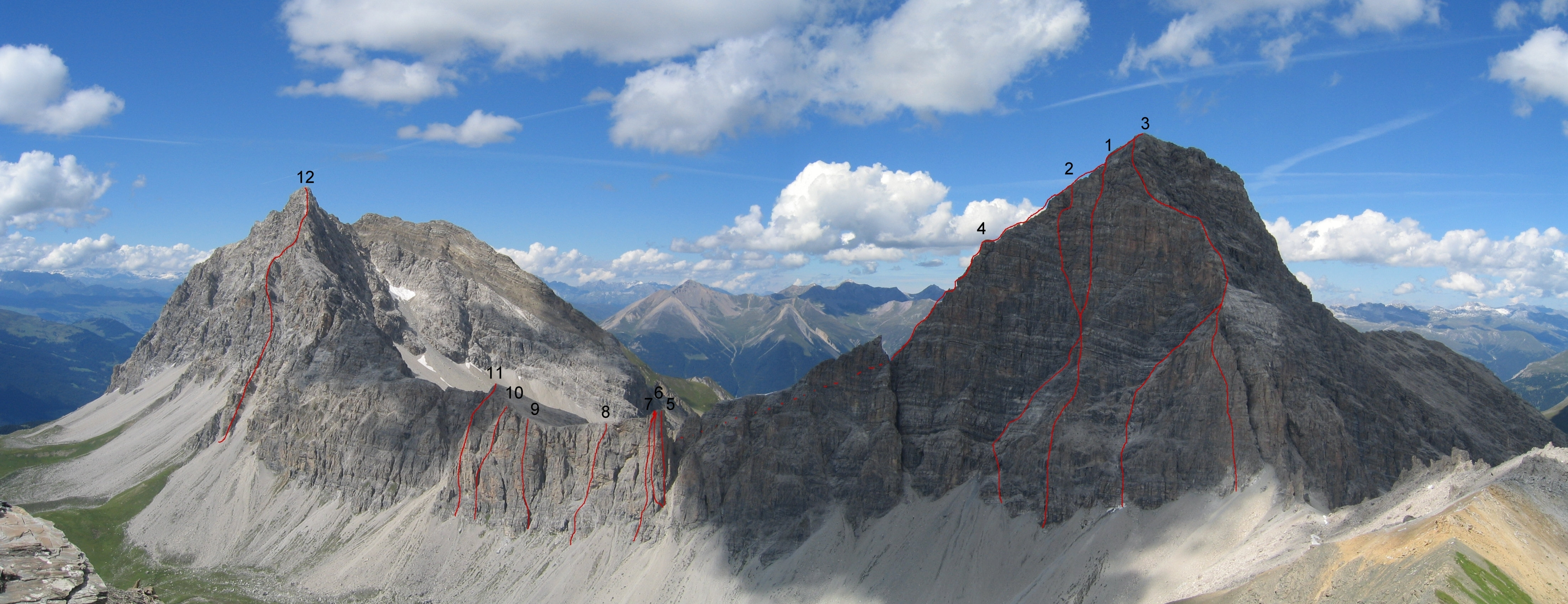 Climbing routes Tinzenhorn - Piz Mitgel, Savognin, Filisur, Grisons, Switzerland